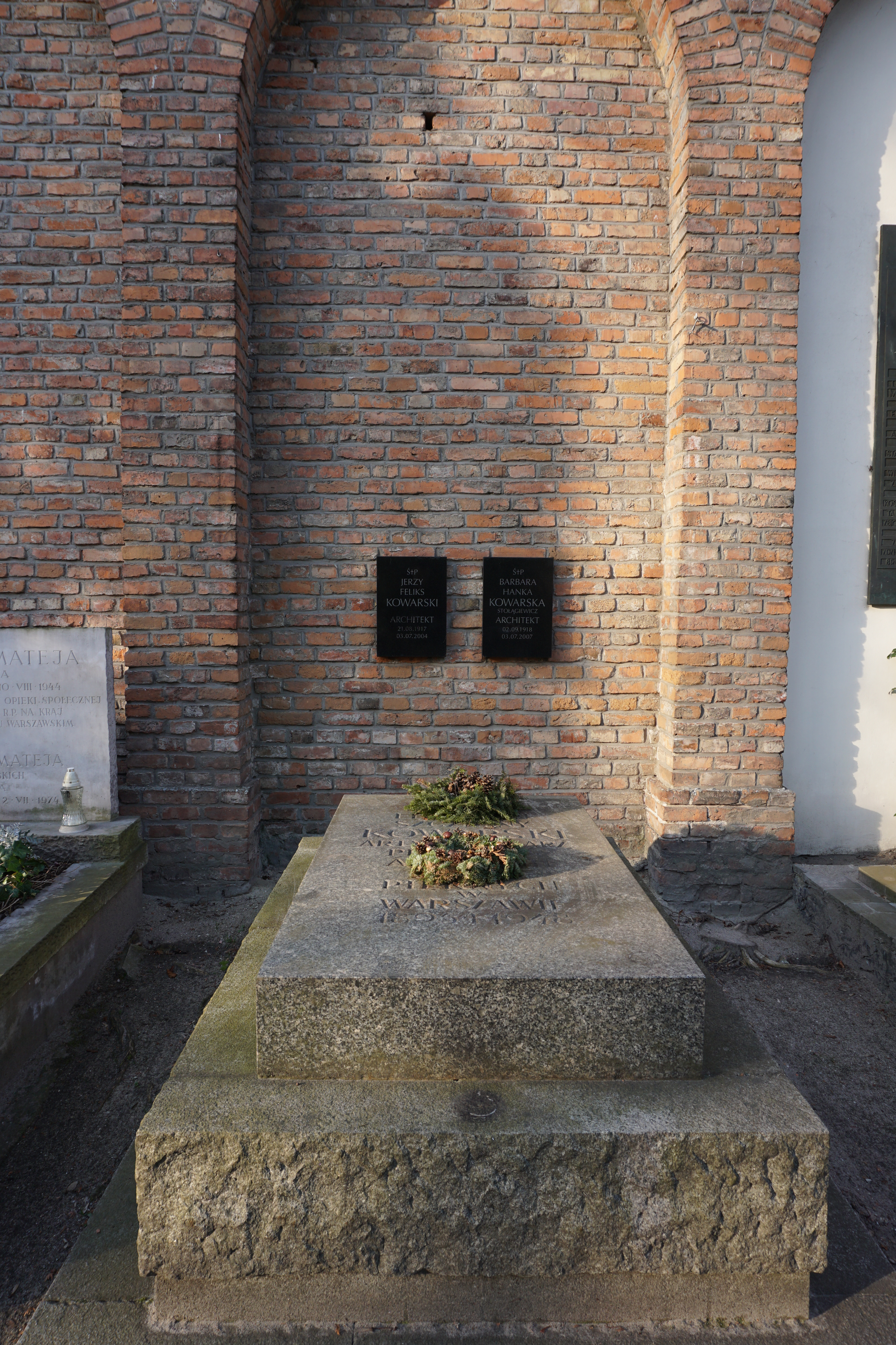 The grave of Felicjan Szczęsny Kowarski at the Powązki Cemetery (Avenue of Deserved, grave 33)